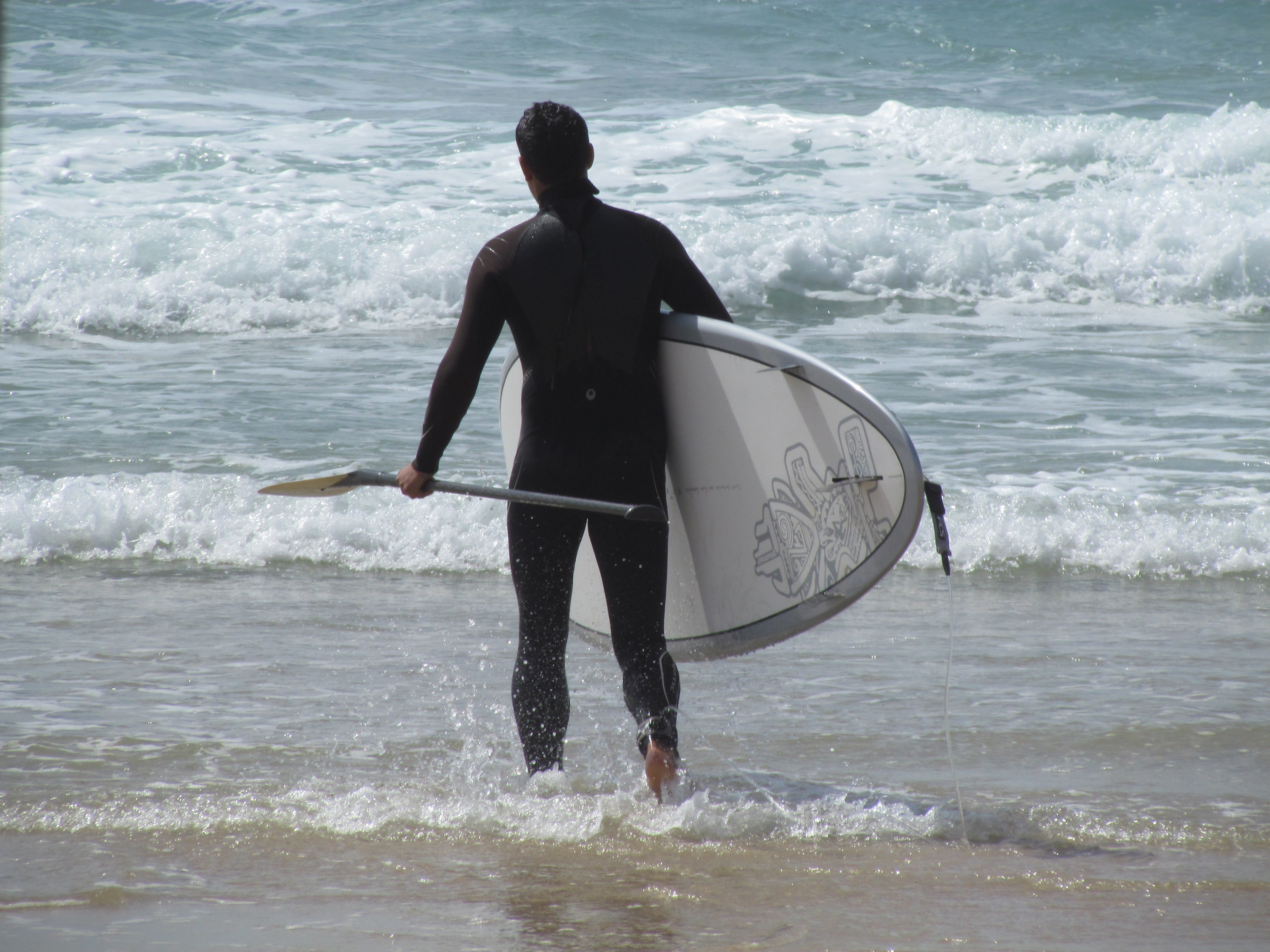 Man with a sup on his way to the sea